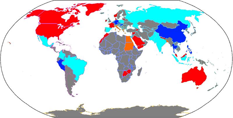 Grey: No data; likely over-the-counter if the country is not developed, otherwise likely banned. Light blue: over-the-counter with limited restrictions. Blue: Prescription-only, with fairly limited restrictions on its use. Orange: Prescription-only, with extensive restrictions on its use. Red: complete ban. Oops! Forgot to colour everything in. (Description is not 100% correct, because in Russia it is sold over-the-counter without any restrictions. Spain too. Brazil too. Also in India the ban was lifted later in 2014. In Canada it's on the other hand it's banned for humans, authorized for veterinary use only)